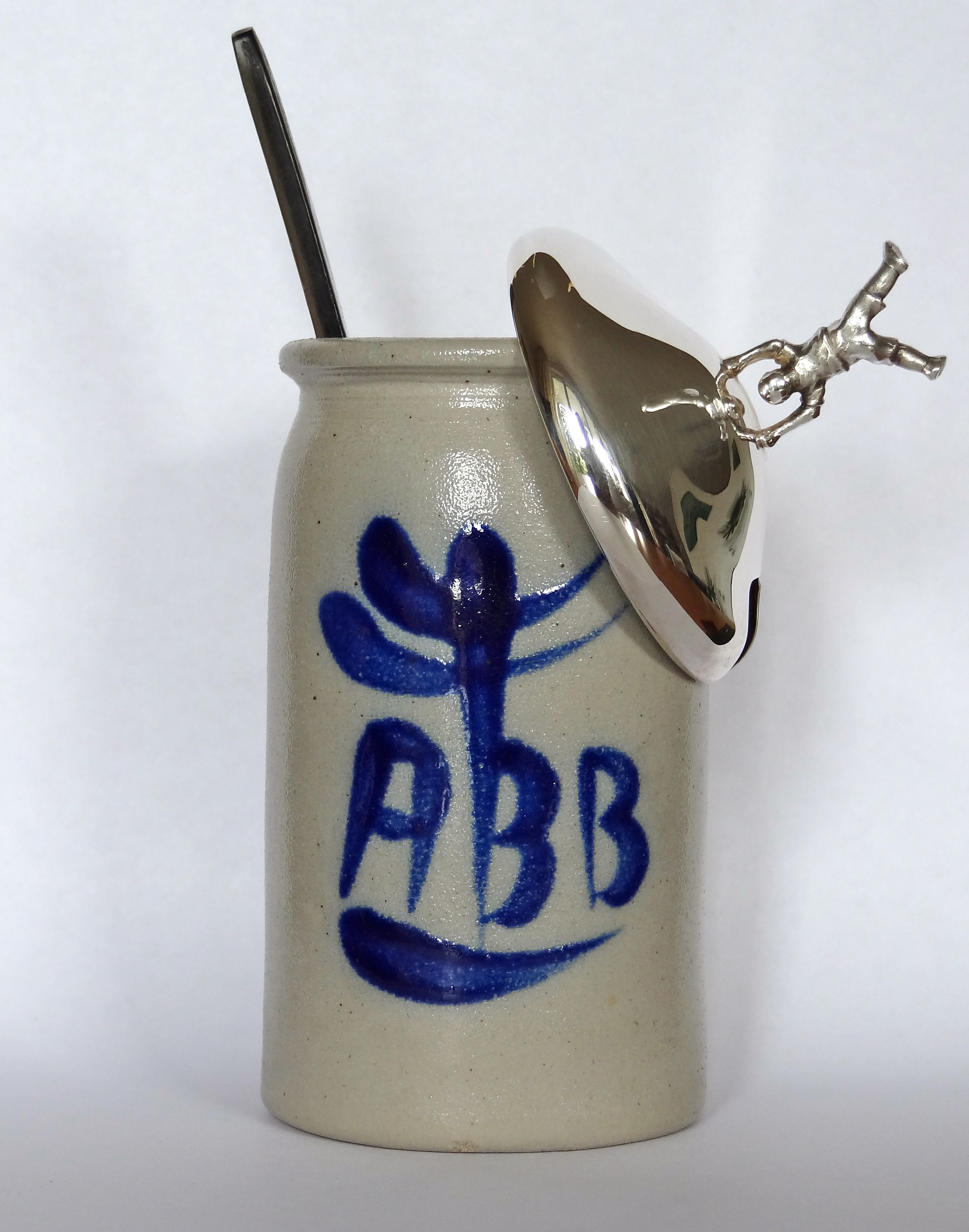 Mustard pot, stoneware and silver